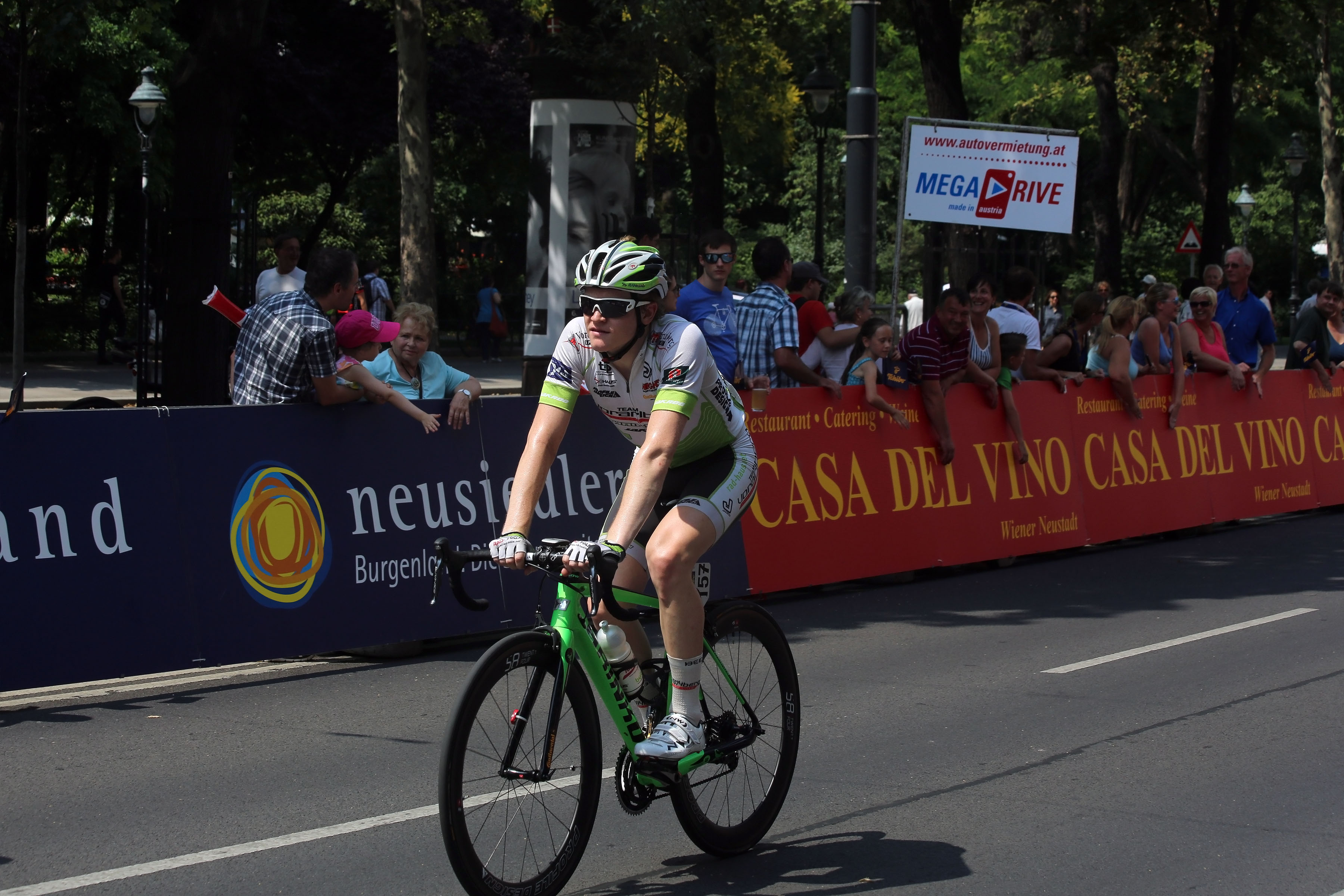 Dominik Hrinkow after finishing the final stage of the Tour of Austria in Vienna, Austria.